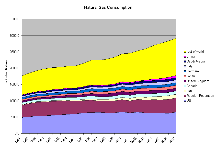 Natural Gas Consumption comes from the data in the BP Statistical Review of World Energy June 2008 [1][2]